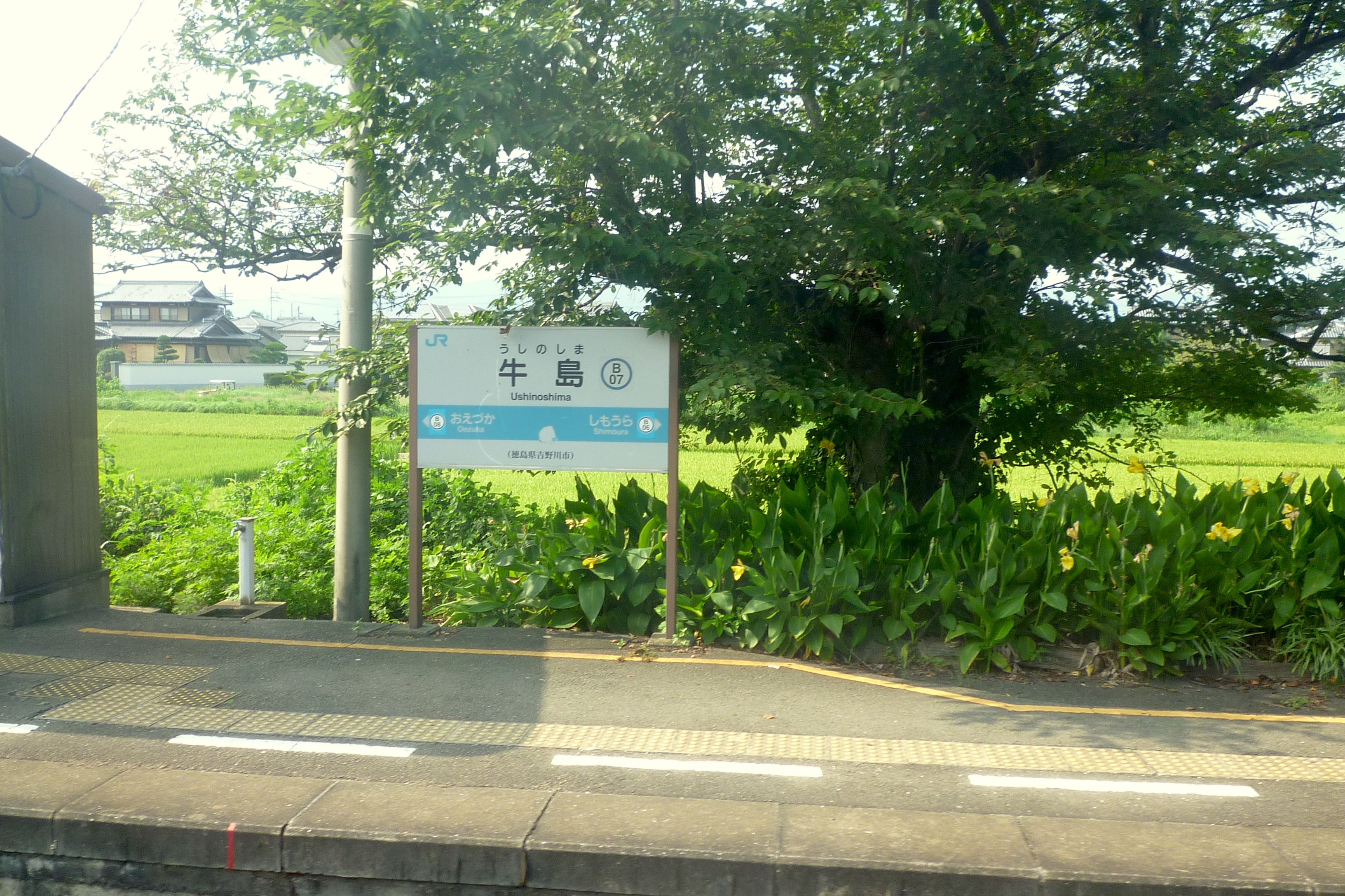 Ushinoshima Station (牛島駅 Ushinoshima-eki) is a train station in Yoshinogawa, Tokushima Prefecture, Japan.